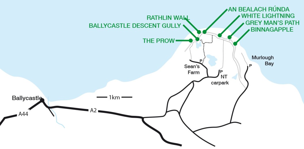 Map of the rock climbing layout of Fair Head in Antrim, Northern Ireland